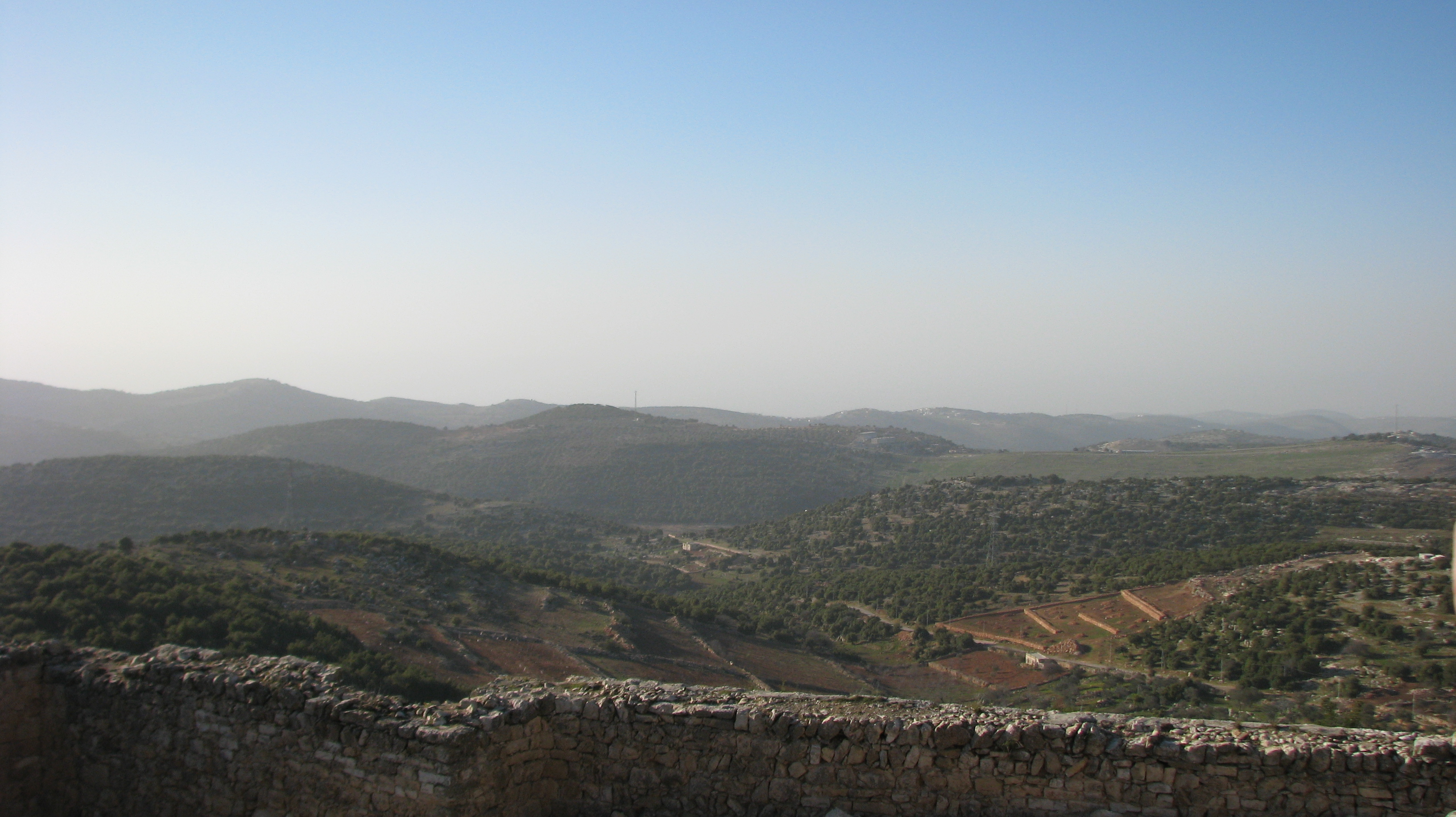 Agriculture in Jordan from Adjloun Castle